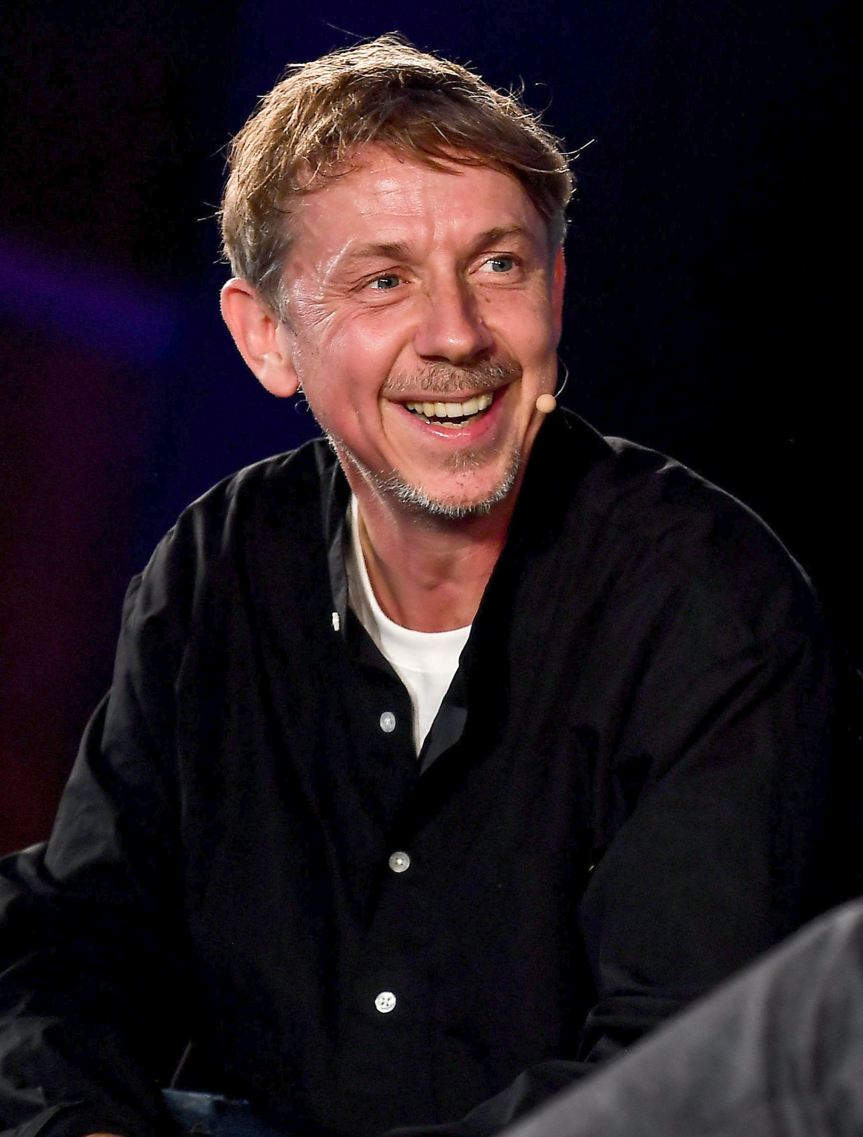 7 November 2019; Gilles Peterson, Broadcaster, BBC, left with Damian Bradfield, Chief Creative Officer, WeTransfer, on MusicNotes Stage during the final day of Web Summit 2019 at the Altice Arena in Lisbon, Portugal. Photo by David Fitzgerald/Web Summit via Sportsfile